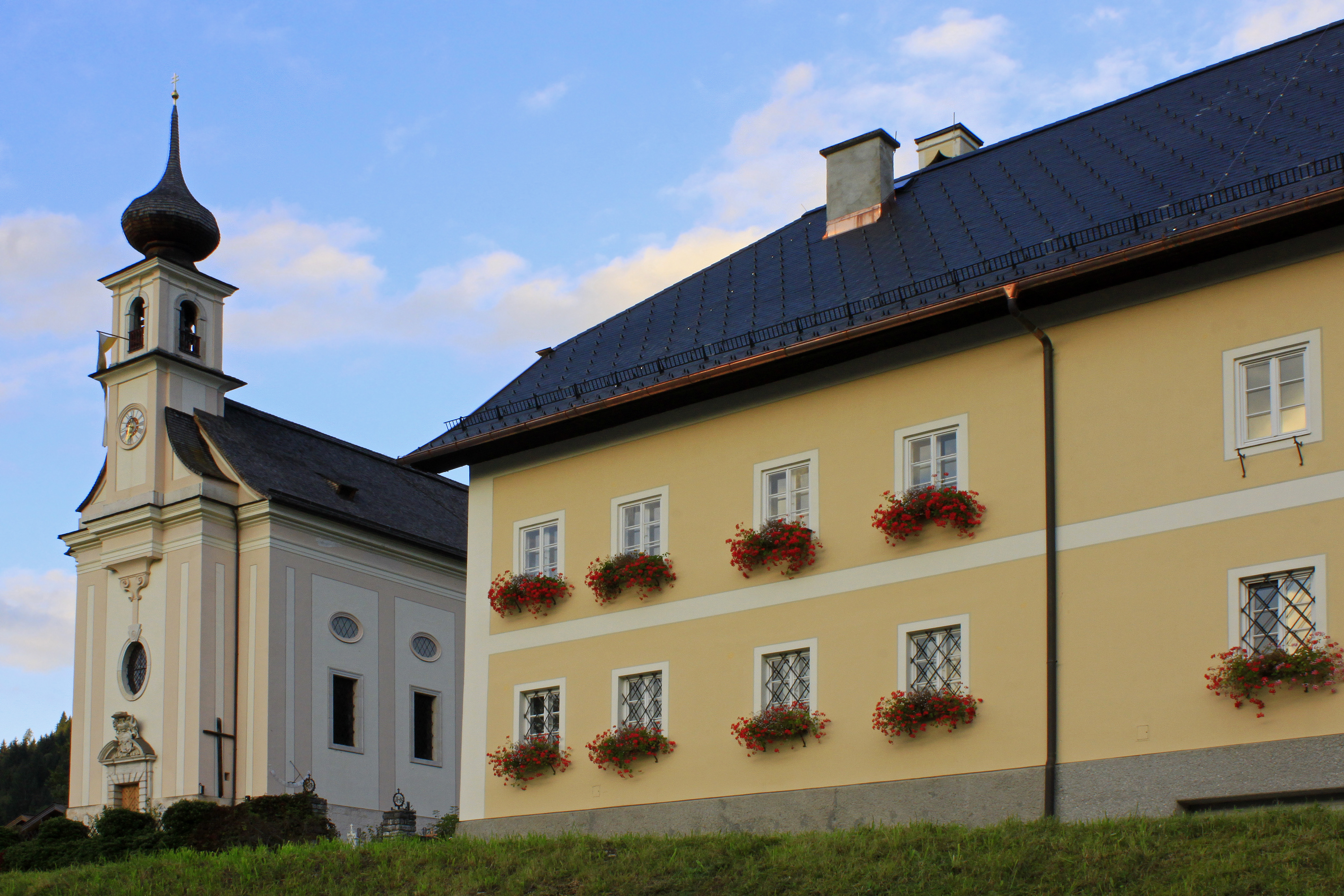 Kath. Pfarrkirche Unbefleckte Empfängnis Mariae mit Pfarrhof